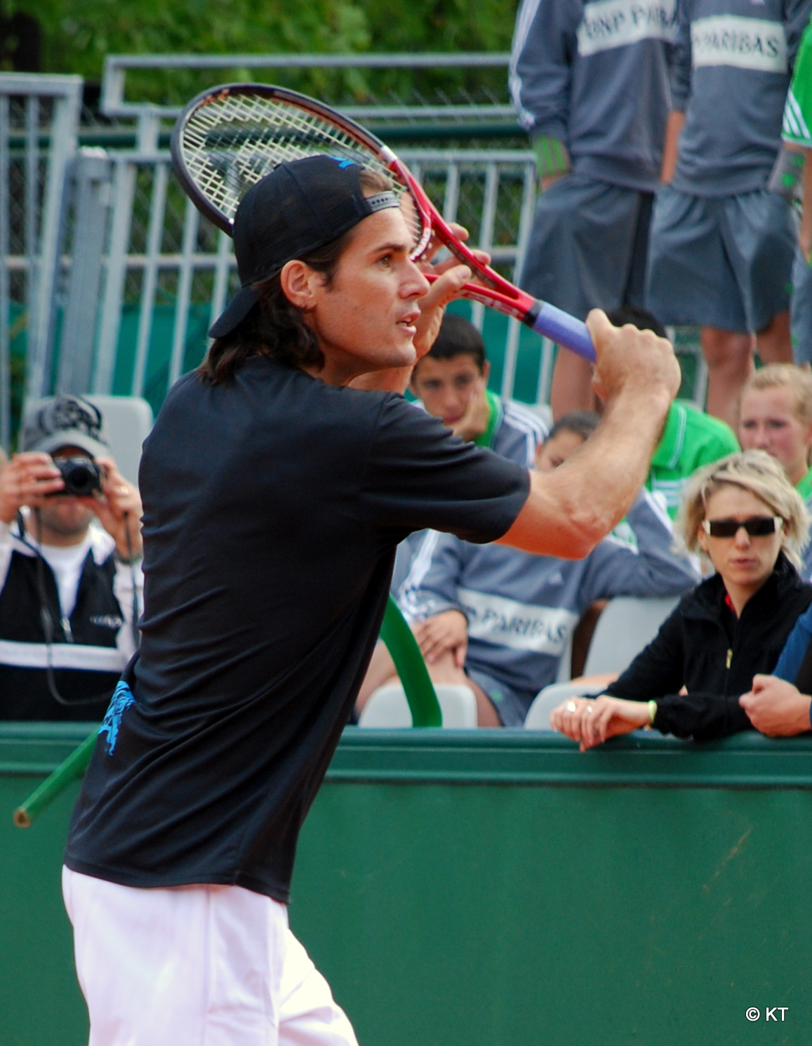 Haas o the practice court with doubles partner Philipp Petzschner at the 2011 French Open